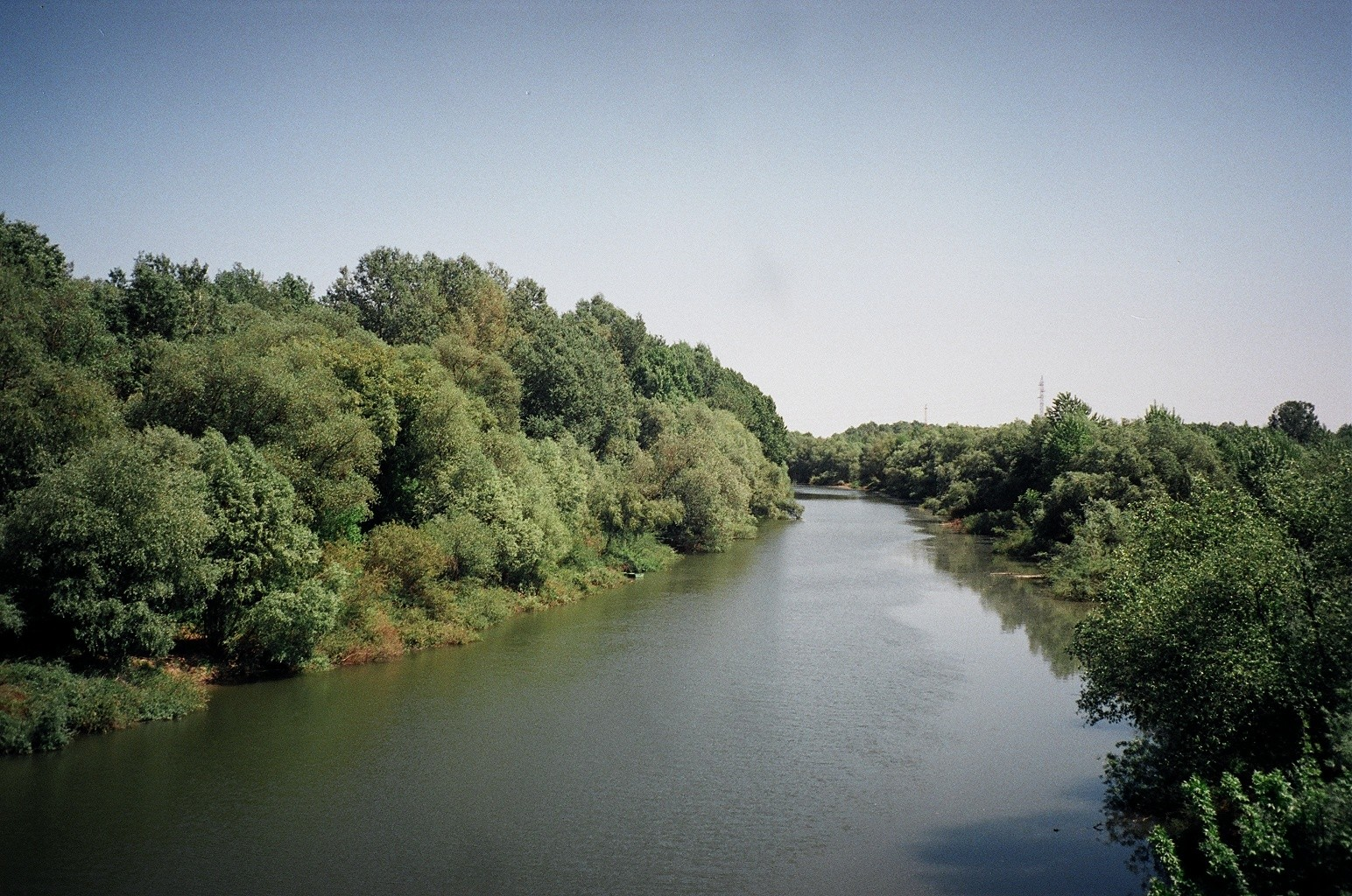 The river Körös near the Hungarian town Mezőberény